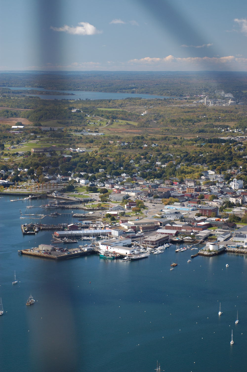 Rockland, Maine and its harbor 2003/10/25 by Jason Philbrook. more photos at